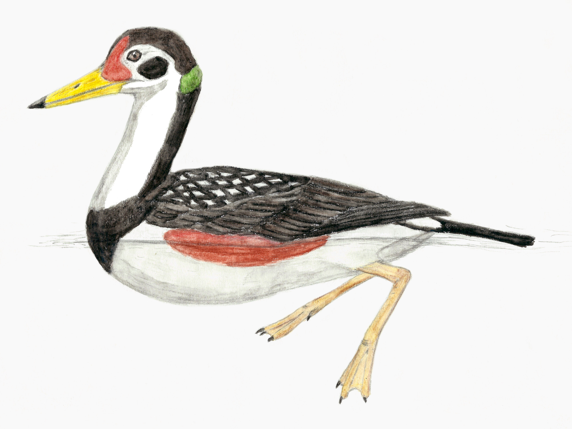 Life restoration of Vegavis iaai, a waterfowl relative that lived in the Antarctic Peninsula during the end of the Cretaceous period. Appearance is based on a 2017 study that linked Vegavis to the loon-like Polarornis.